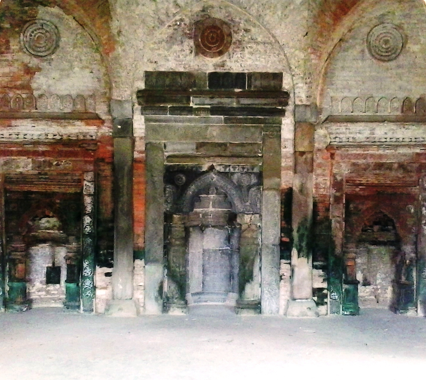 Mehrab of Goaldi mosque, Sonargaon, Narayanganj